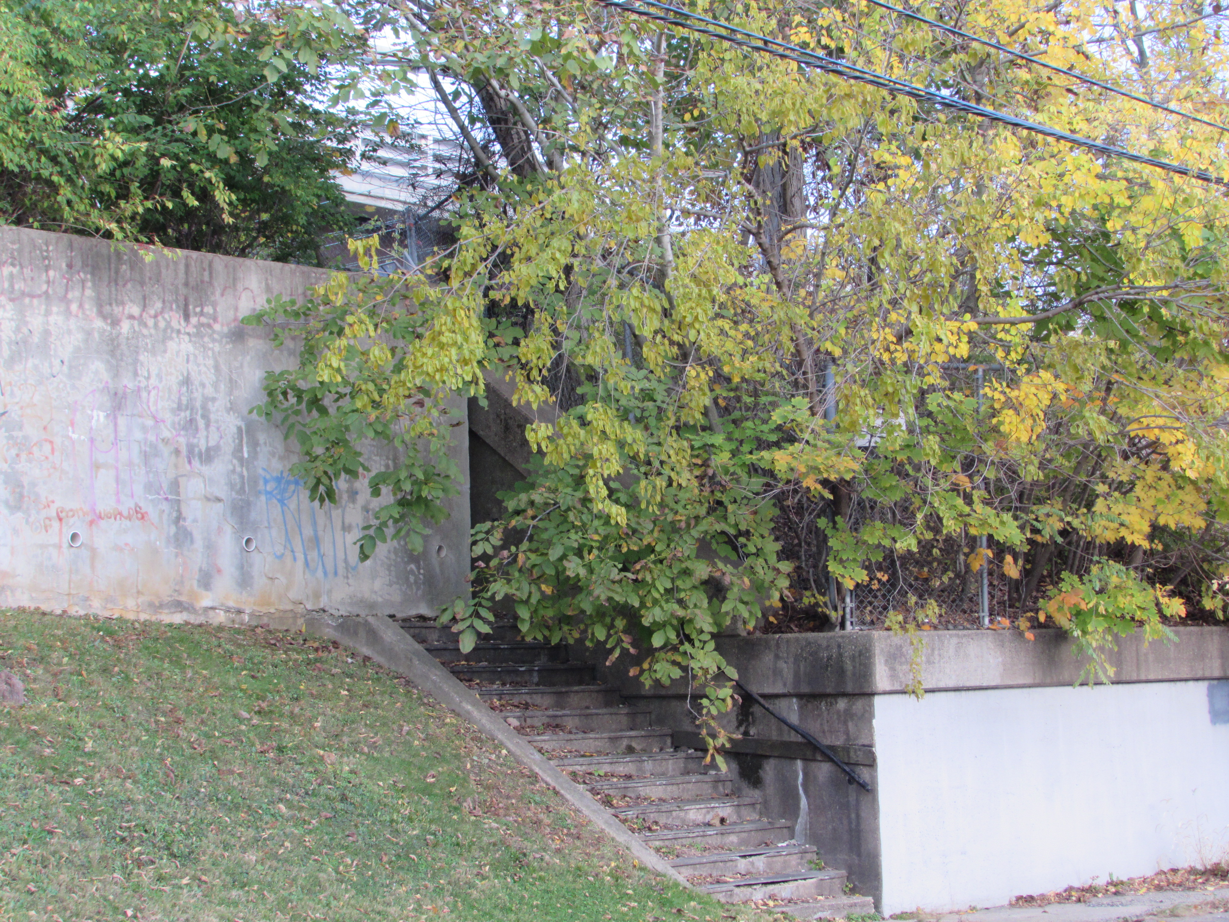 Steps leading to the site of the Newport Railroad Station in Newport, Delaware